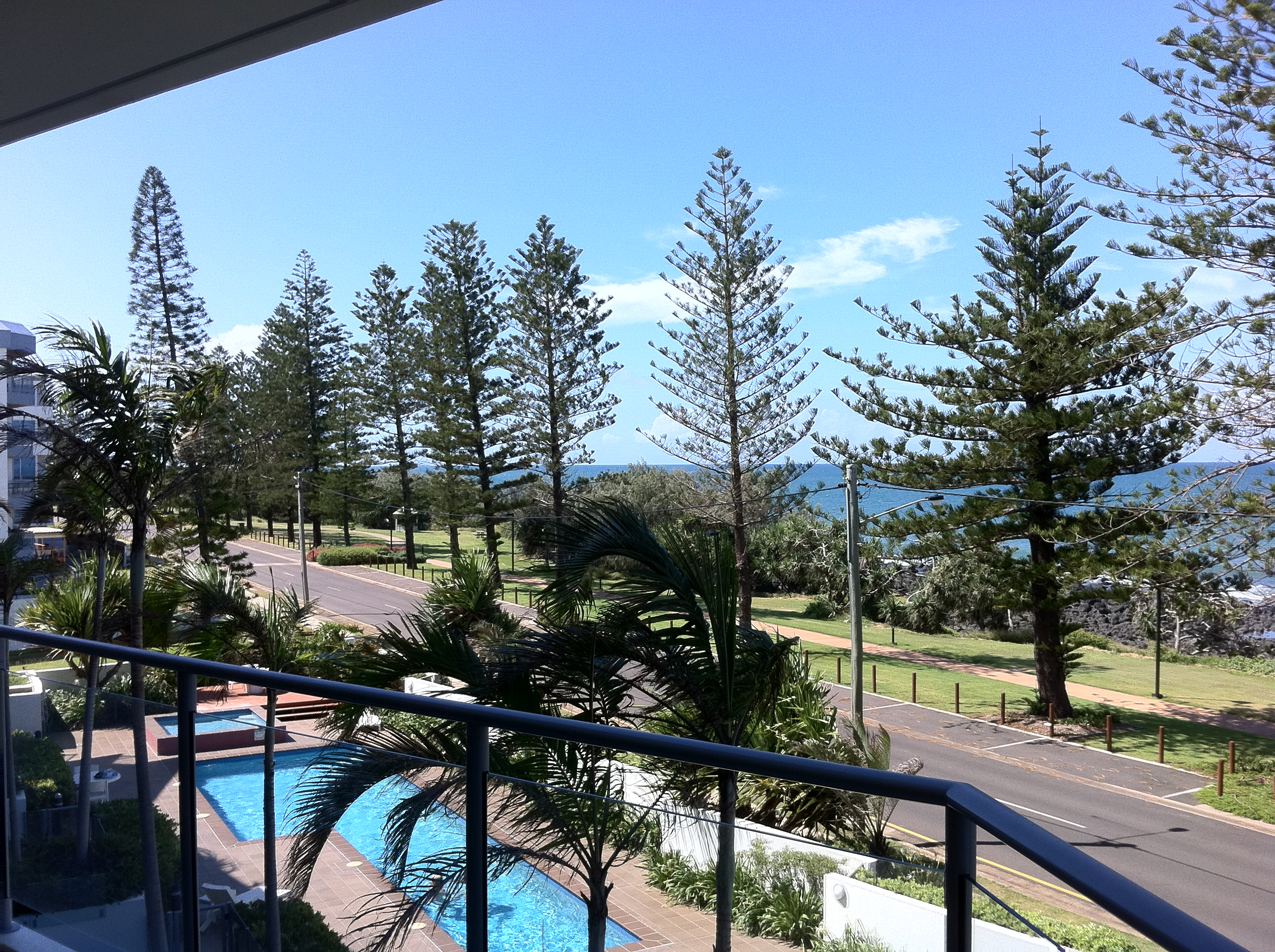 Bagara foreshore, 2011